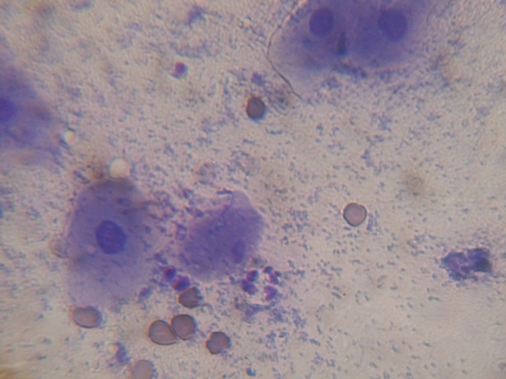 vaginalcytology in a bitch: proestrus